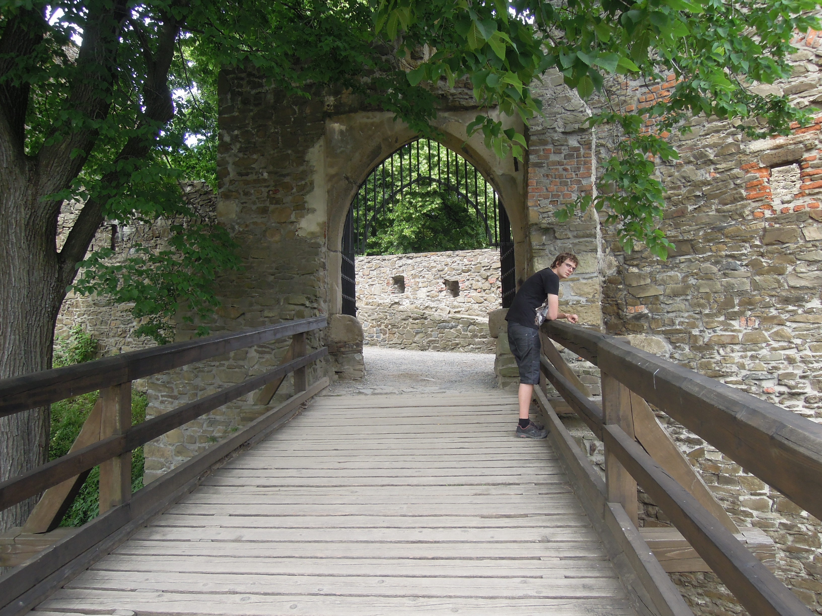 Castle Helfštýn near Týn nad Bečvou, Přerov District, Olomouc Region, Czech Republic